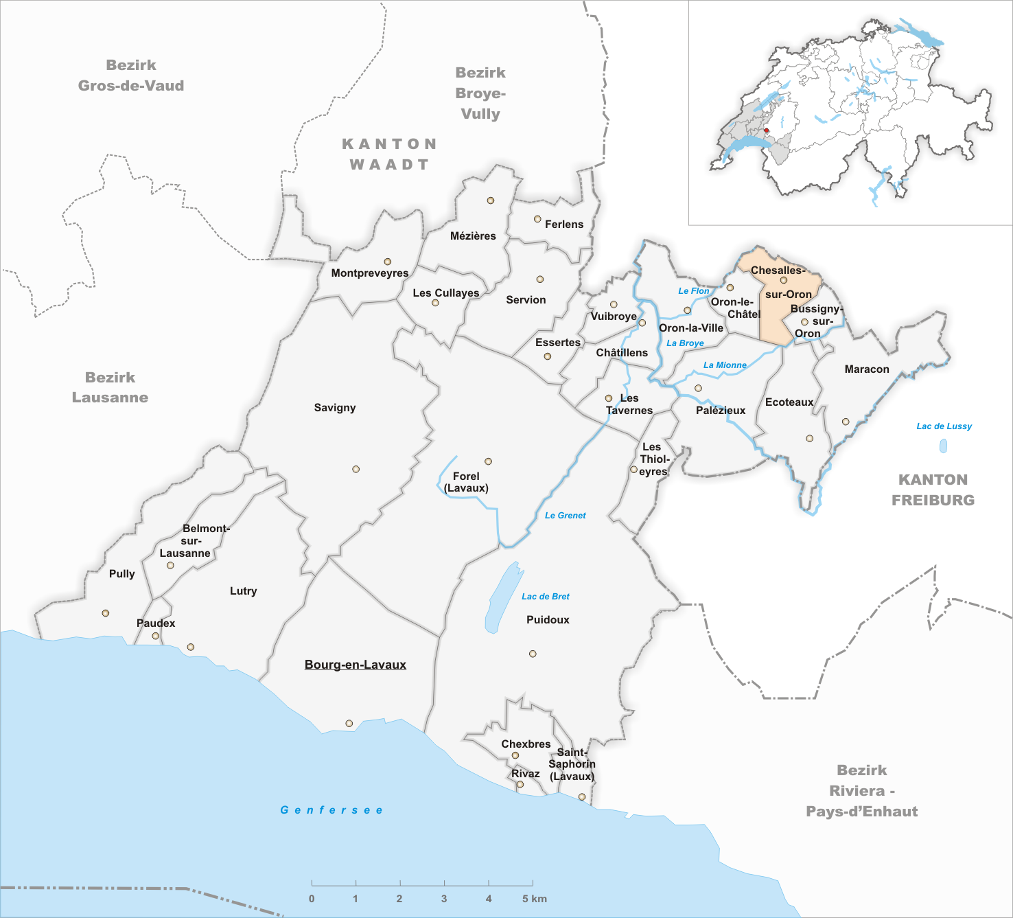 Municipality Chesalles-sur-Oron